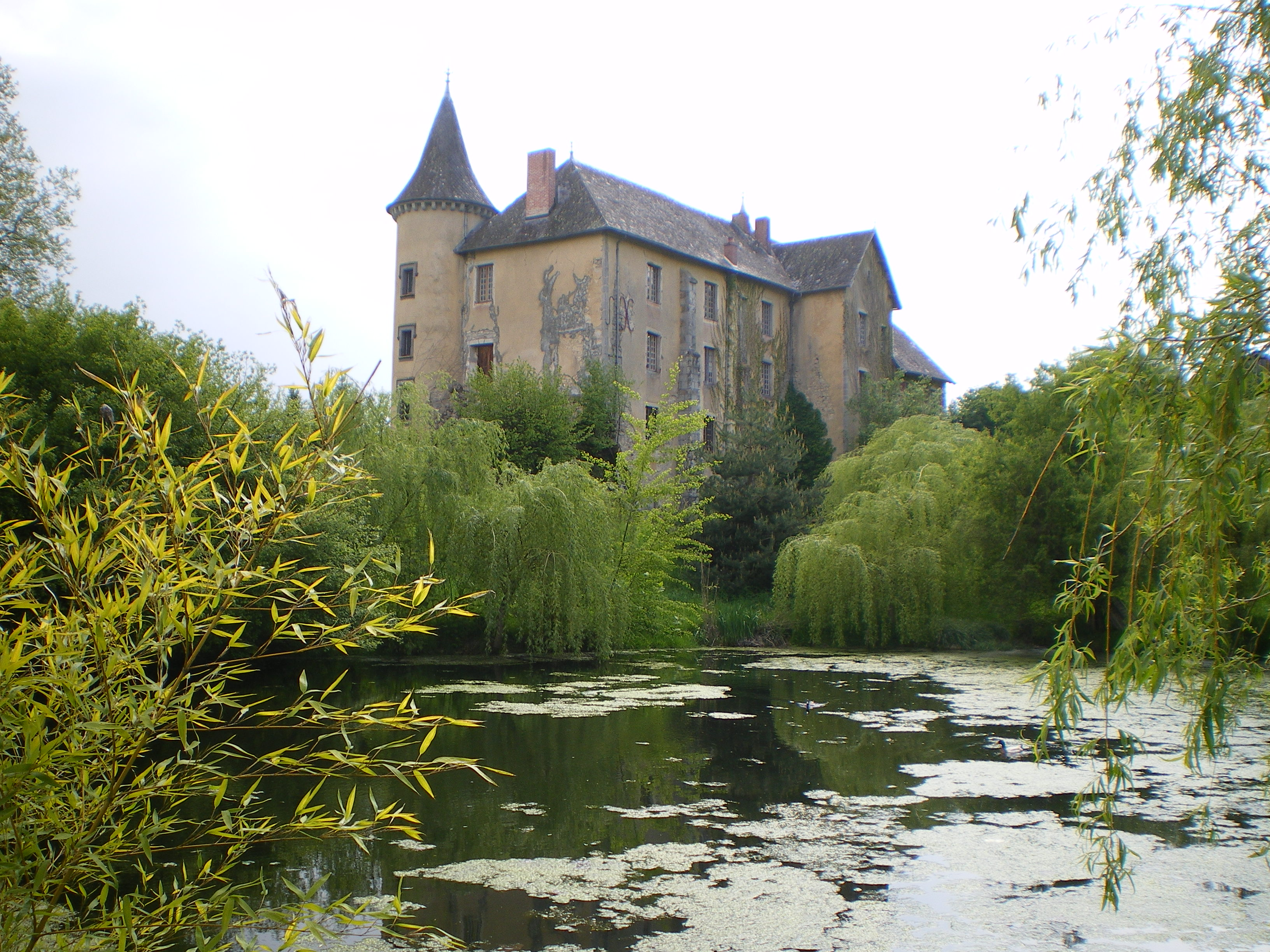 Bessonies castle view from the park, Bessonies in Lot department in France